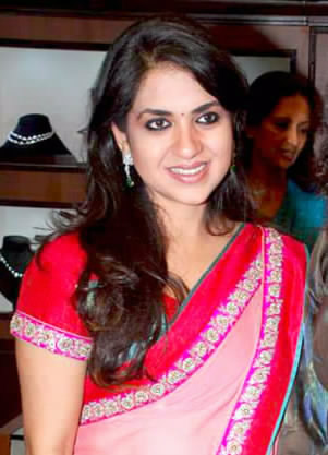 Shaina NC's jewellery line launch for Ramniklal and Sons Jewelers